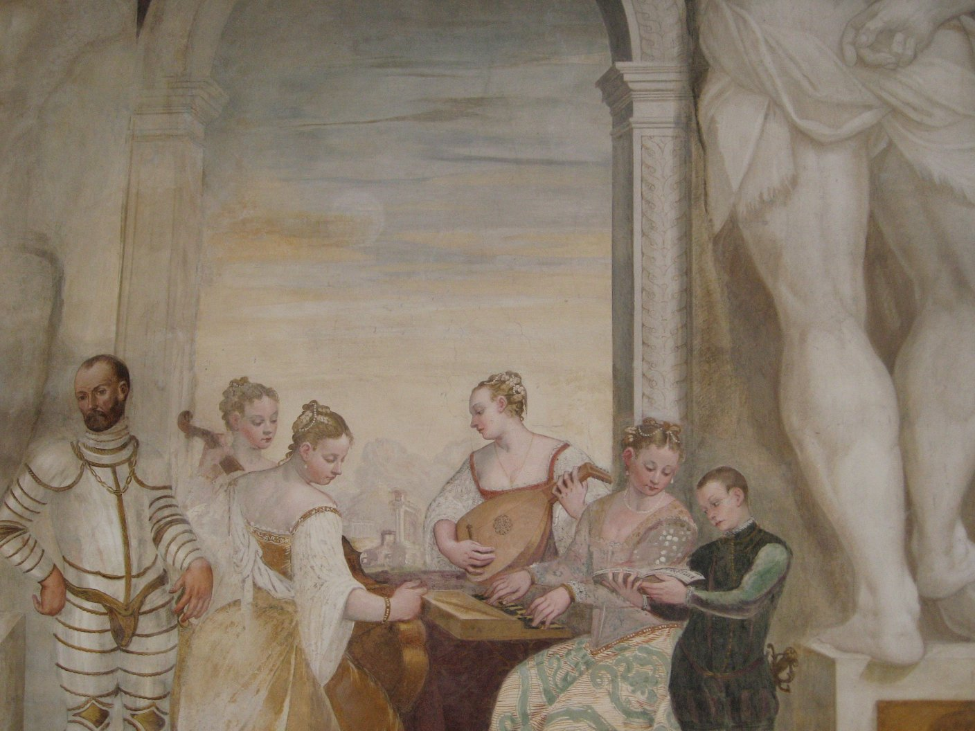 Main hall frescos by Giovanni Antonio Fasolo (1530-1572), completed on or before 1570: The little concert